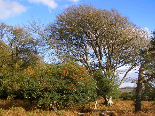 Trees at Winding Stonard, New Forest These trees are on the southern edge of Winding Stonard wood. On the far right is a lop-sided Scots pine, left of centre a magnificent beech pollard and to the left holly bushes with an abundance of bright red berries. In the distance, on the horizon, is Stonard Wood. The names of the two areas must be linked, but information seems scarce.